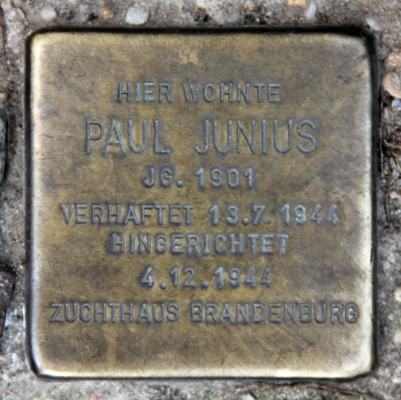 "Stolperstein" (stumbling block), Paul Junius, Rügener Straße 22, Berlin-Gesundbrunnen, Germany